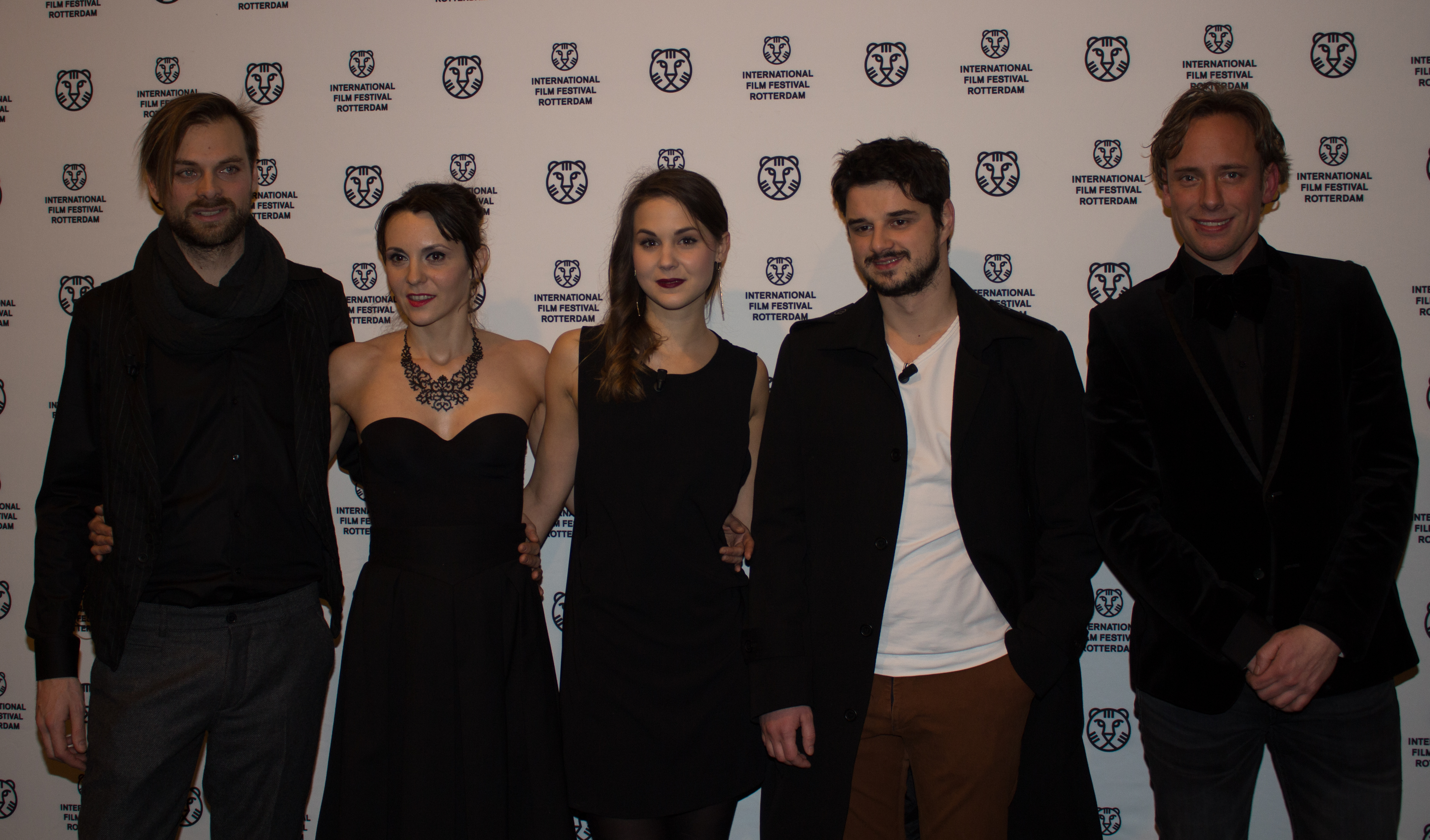 Director Marinus Groothof and cast members Nikola Rakocevic, Nevena Ristic and Nada Sargin at the premiere of "The Sky Above Us"